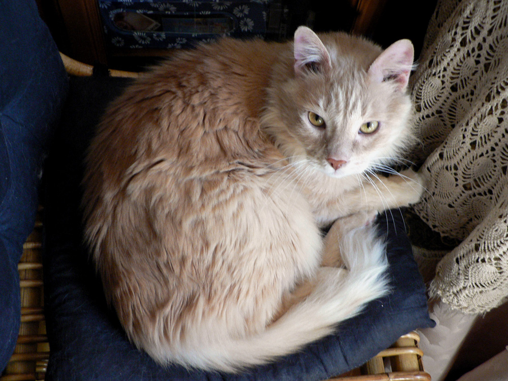 Longhaired cat